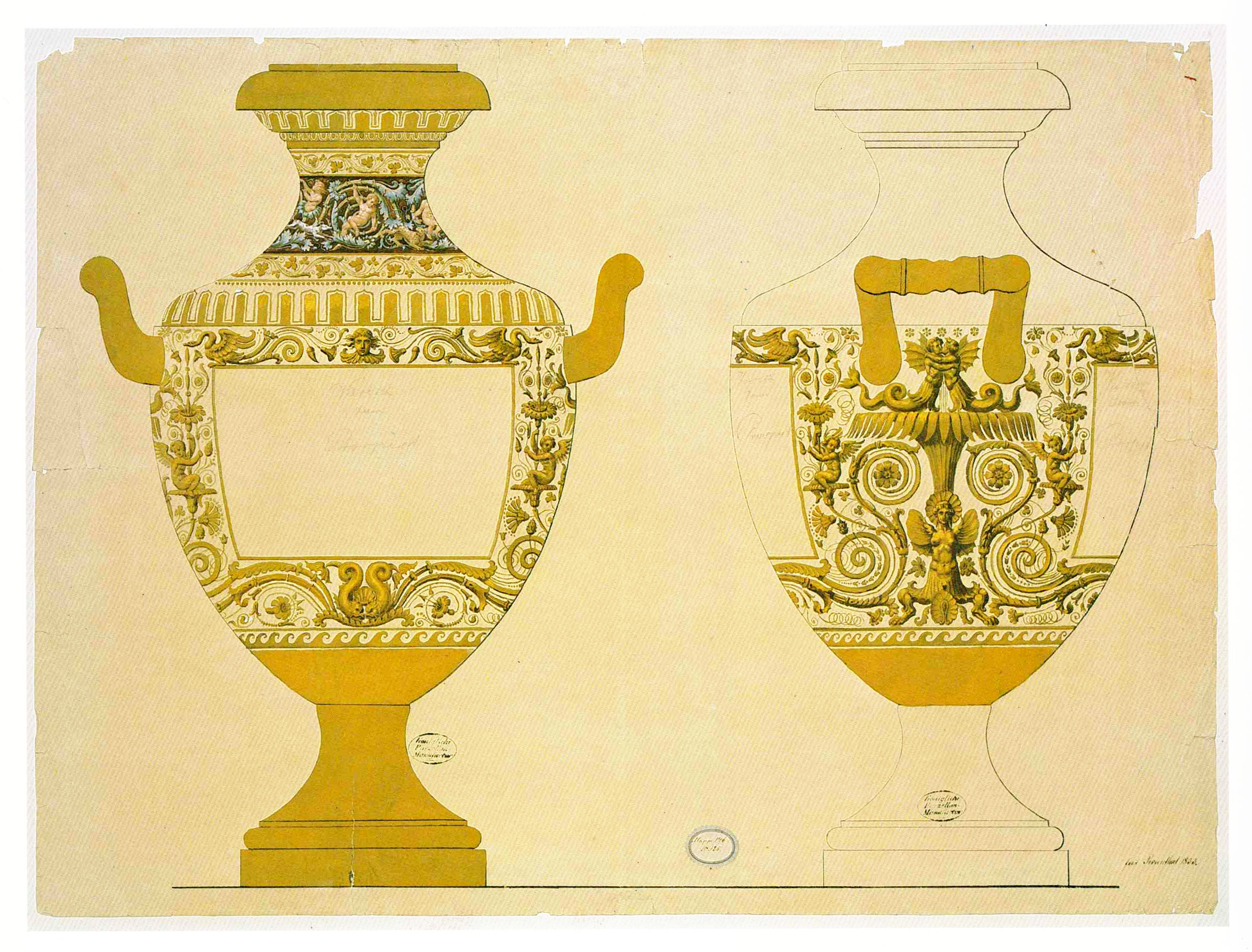 Example of a template for decor on a vase